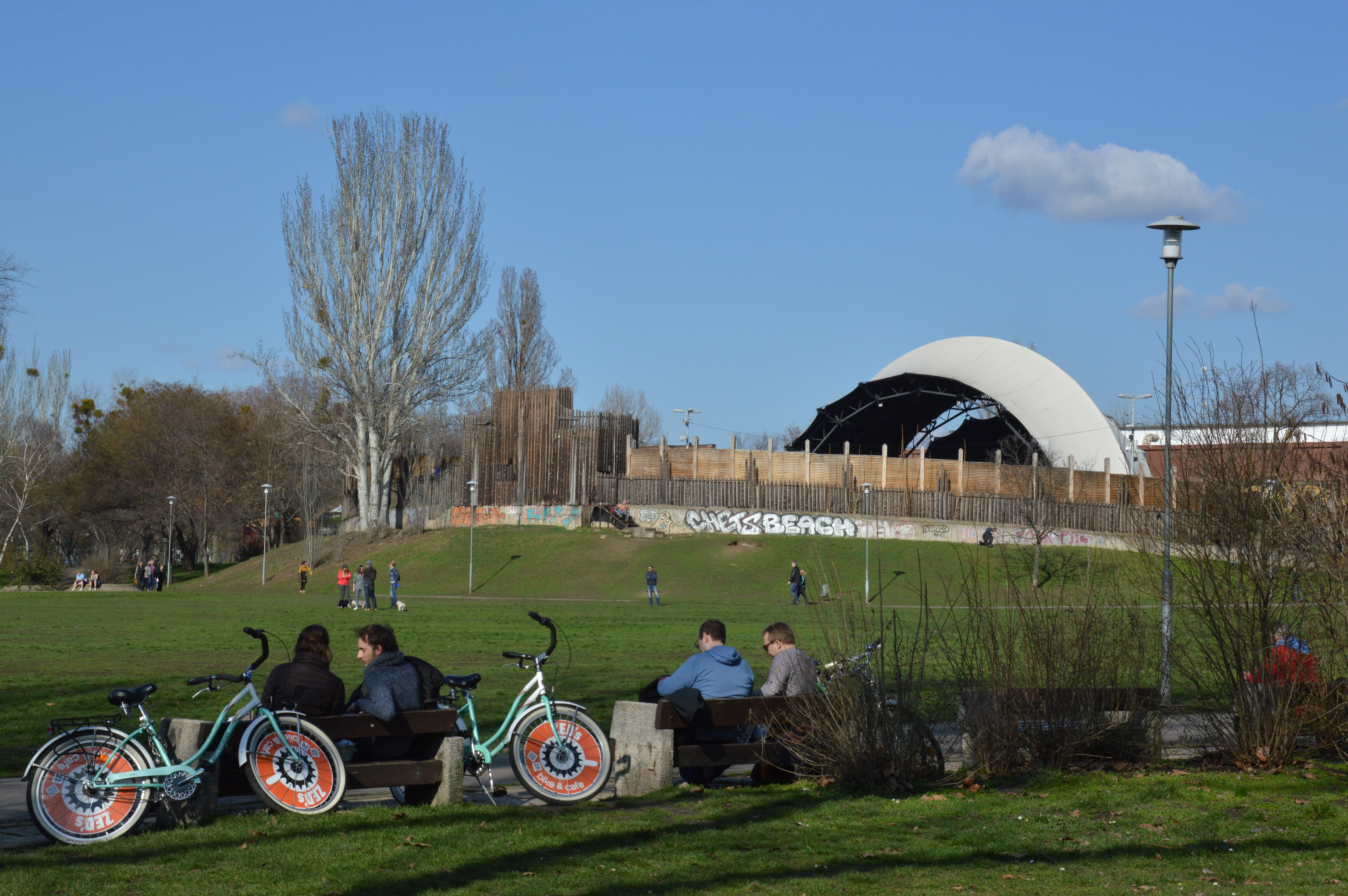 People sit on benches in front of a field and the outdoor pavilion of Petöfi Csarnok in Budapest's Városliget.